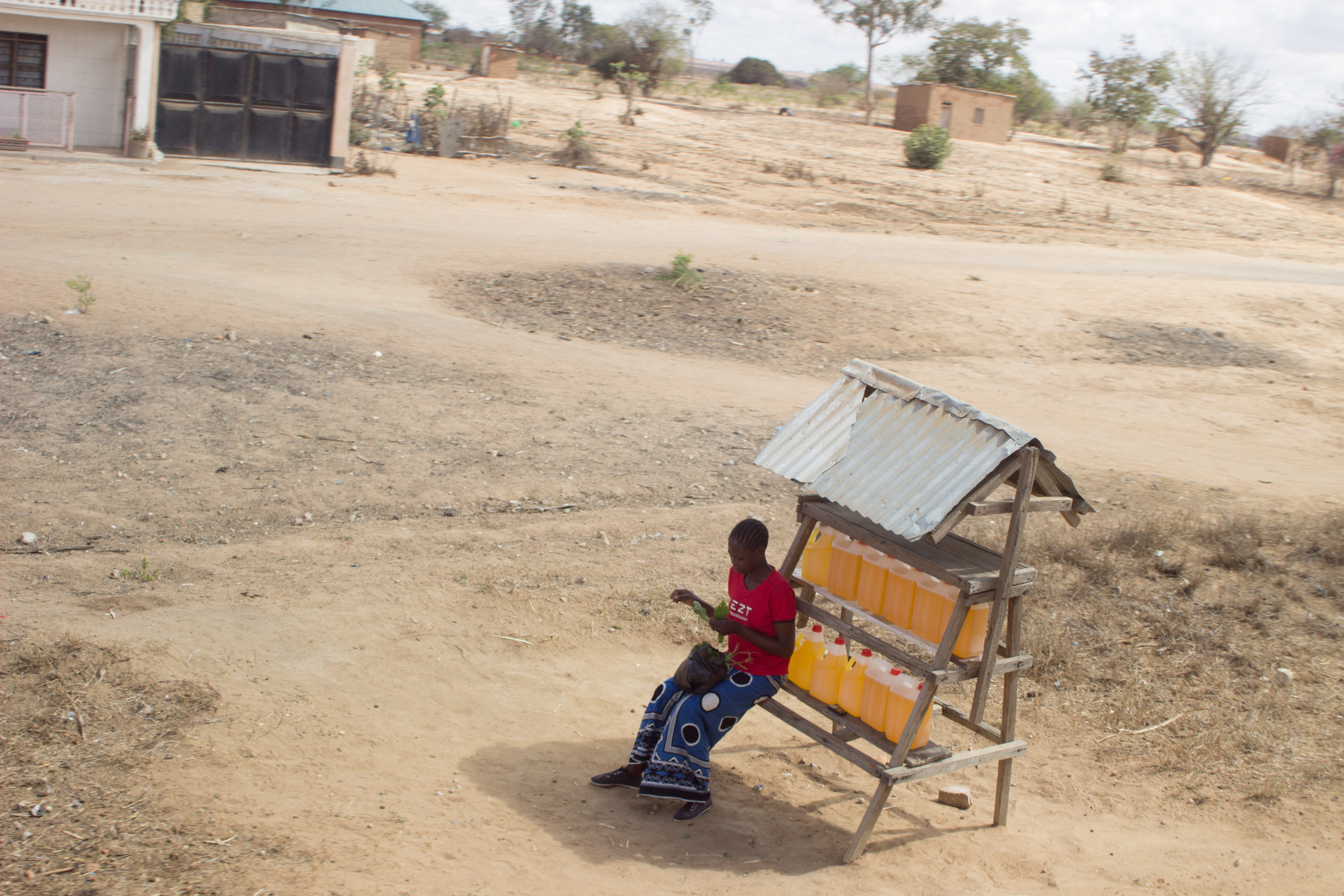 This is an image of "African people at work" from Tanzania